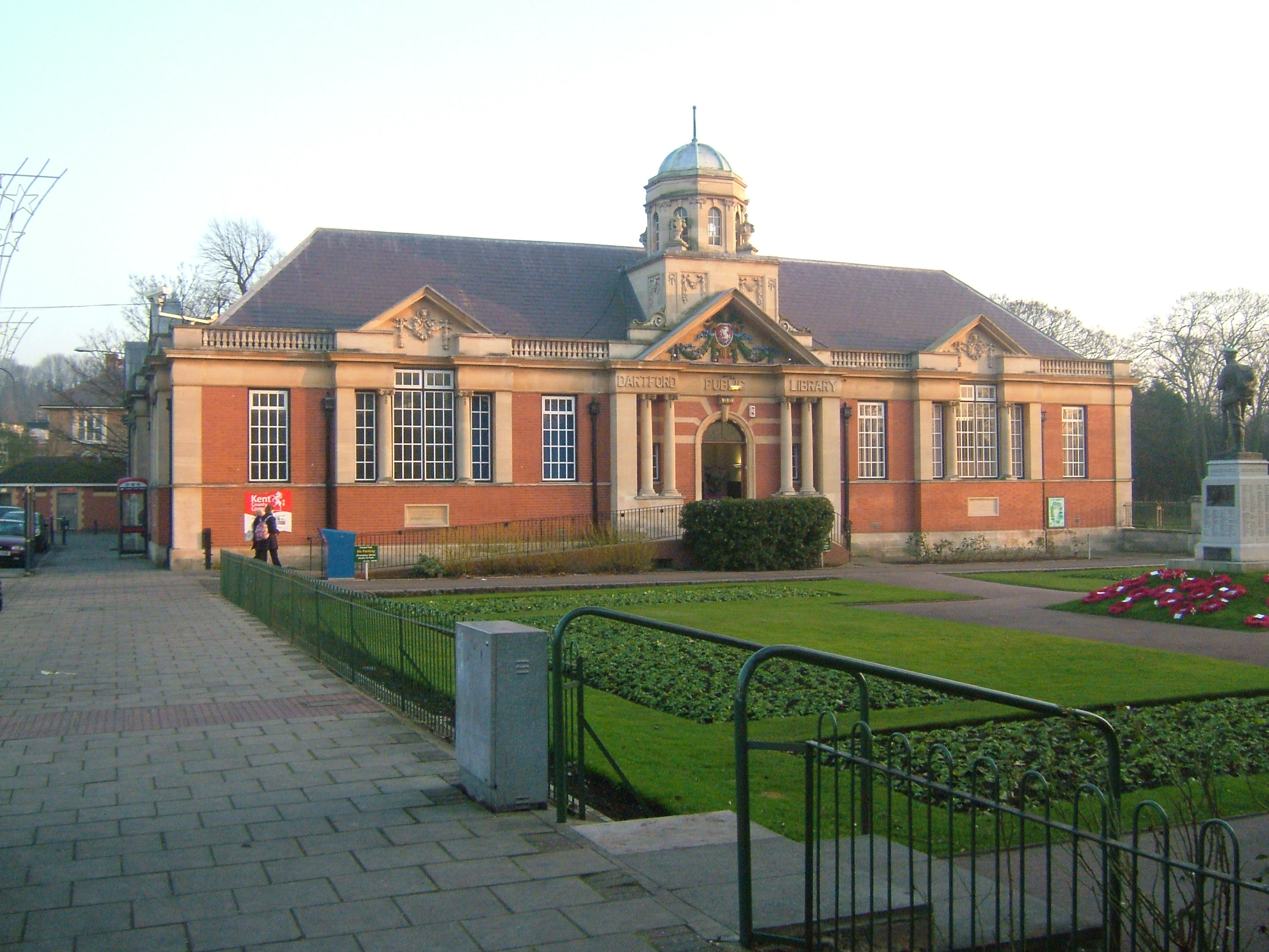 Dartford is a town in North Kent, England. The Library and Museum